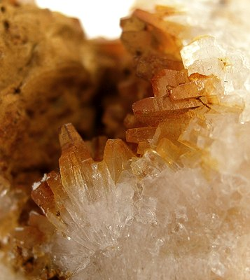 Ralstonite, Thomsenolite Locality: Ivigtut Cryolite deposit, Ivittuut (Ivigtut), Arsuk Firth, Arsuk, Kitaa (West Greenland) Province, Greenland (Locality at ) Size: miniature, 5.2 x 3.6 x 3.3 cm Thomsenolite in Ralstonite This is a very rich specimen with several shallow vugs into which beautiful, transparent crystals of thomsenolite to 8mm grow. The front view, for my taste, is shown in the large image. However the back side is also interesting, and has more crystals, in which the top halves are infused with iron staining, giving them an unusual umber coloration. Old specimen from the late 1800s or early 1900s, from the Freiberg State Mining Museum. (TYPE LOCALITY)